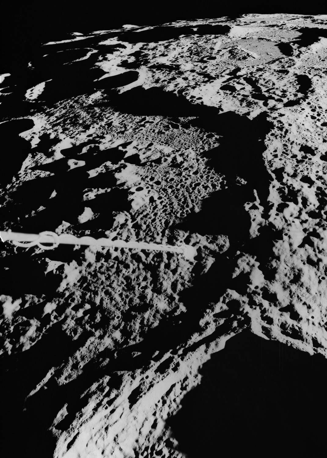 Oblique view of western half of Milne crater, facing south, on the moon. Taken by Apollo 15 mapping camera while the crater was at the sunset terminator. The spacecraft's gamma ray spectrometer is at right center.